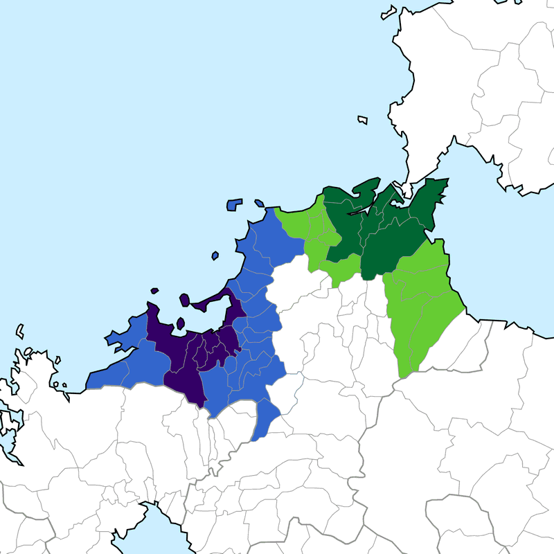 Fukuoka-Kitakyushu Metropolitan Employment Area in 2015, according to the info from English Wikipedia.